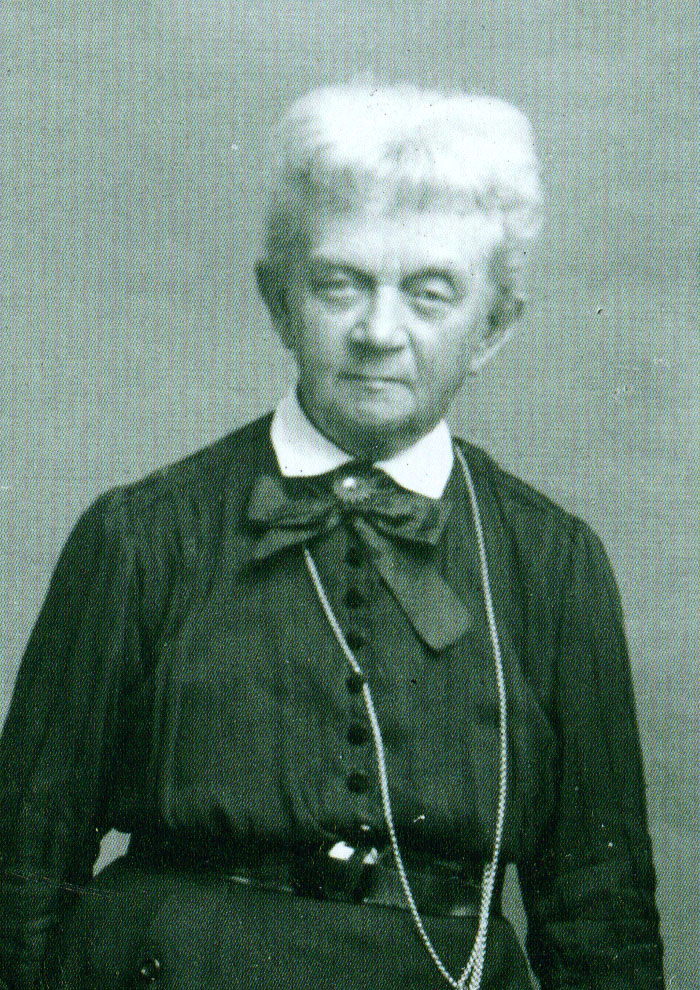 Danish painter Emilie Mundt (1842-1922), cropped from larger photo